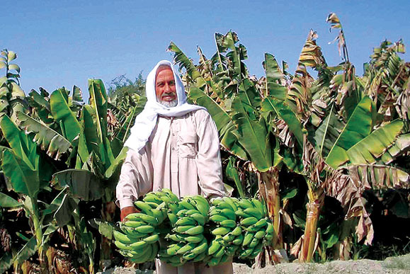 زرآباد بلوچستان موز